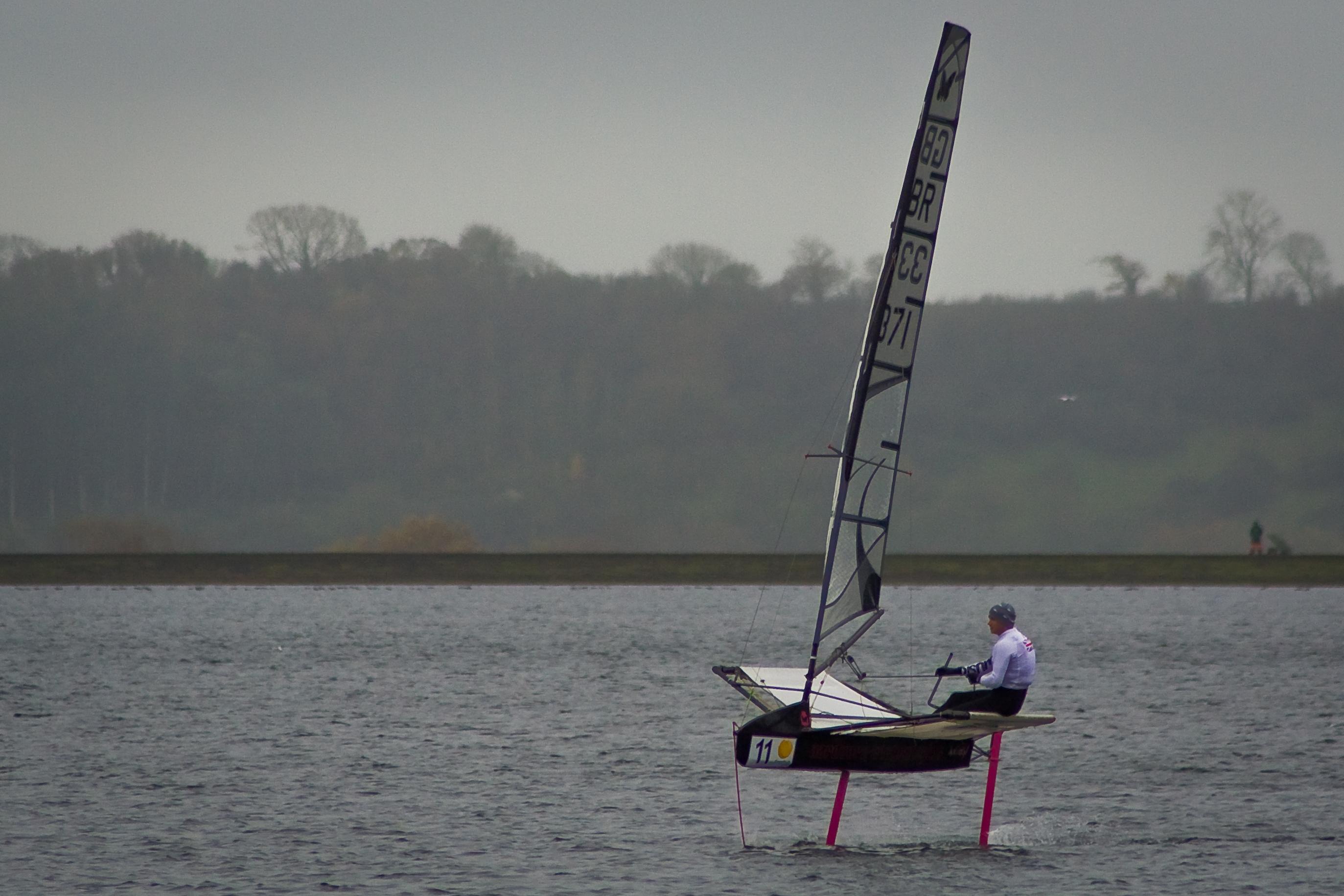 This is the Moth International class dinghy with hydrofoils. The hull weight is under 10 kg and it's speed is unbelievable.